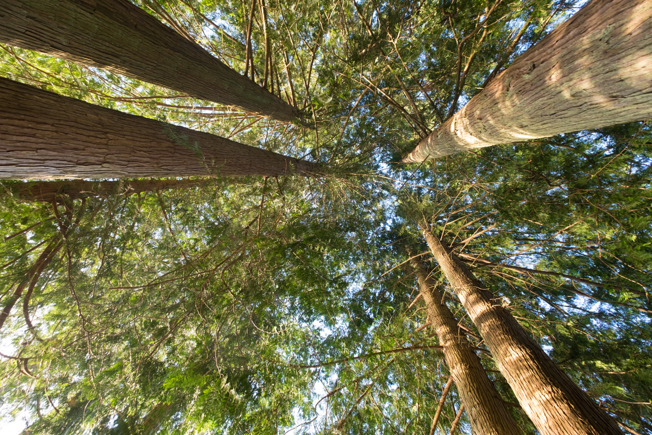 Captured on Keats Island in May 2017.